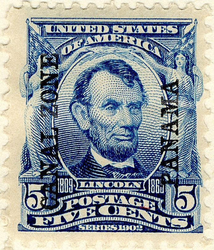 US regular issues of 1902-1903, overprinted for use as Canal Zone stamps, issued on July 19, 1904